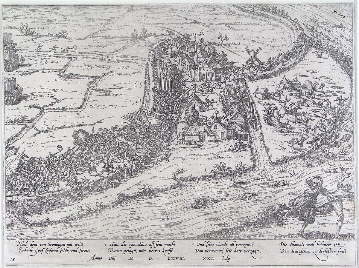 The Battle of Jemmingen, 21st of July, 1568. Etching. Rotterdam, Museum Boijmans Van Beuningen (inv.no. BdH 19765 (PK).